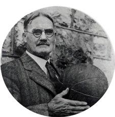 James Naismith (6 November 1861 – 28 November 1939), the inventor of basketball.